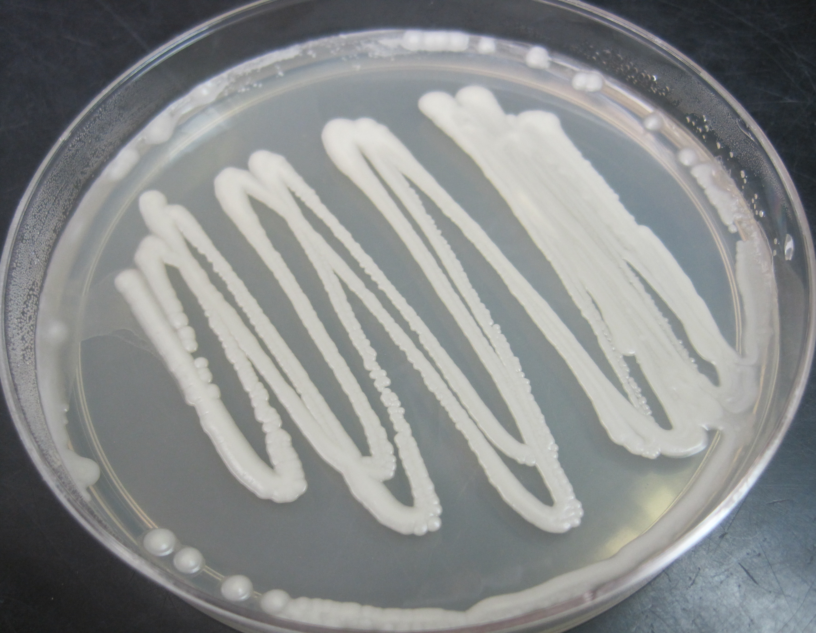 colonies of the fungus meredithblackwellia eburnea growing on agar media